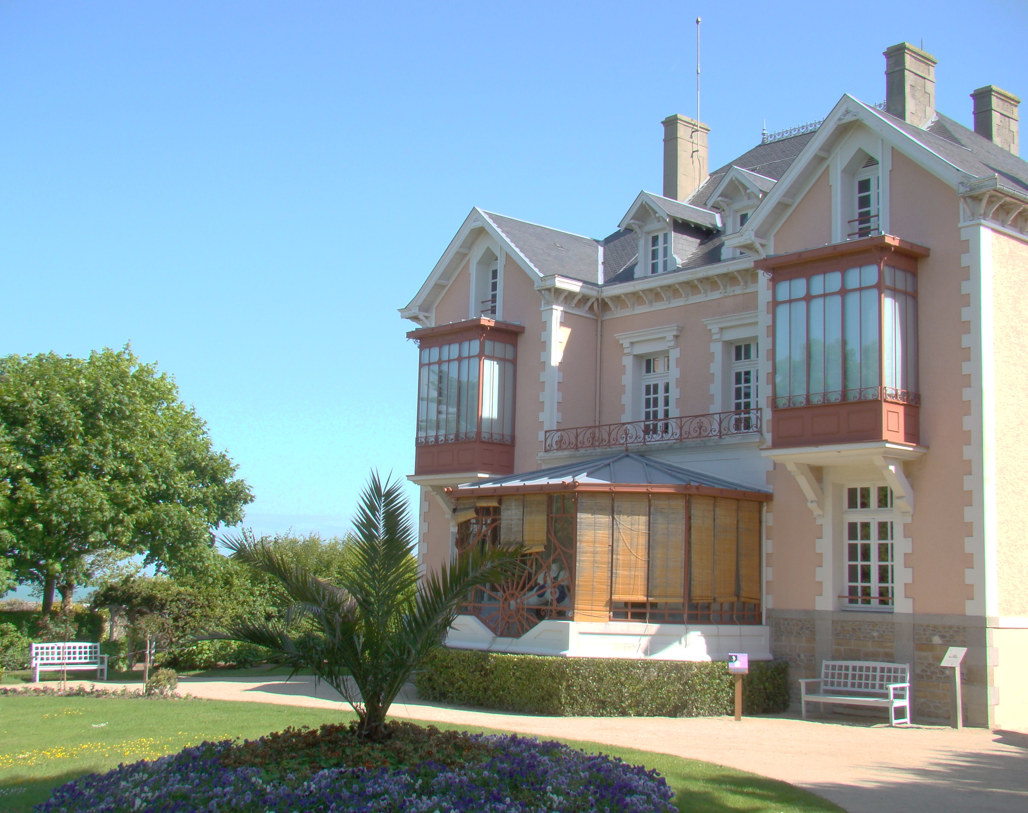 Granville, house and garden of Christian Dior